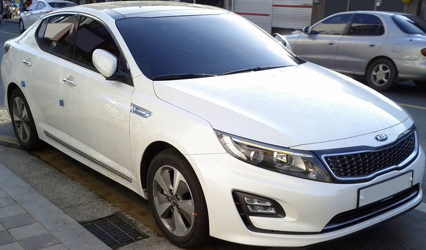 Kia K5 Hybrid 500h